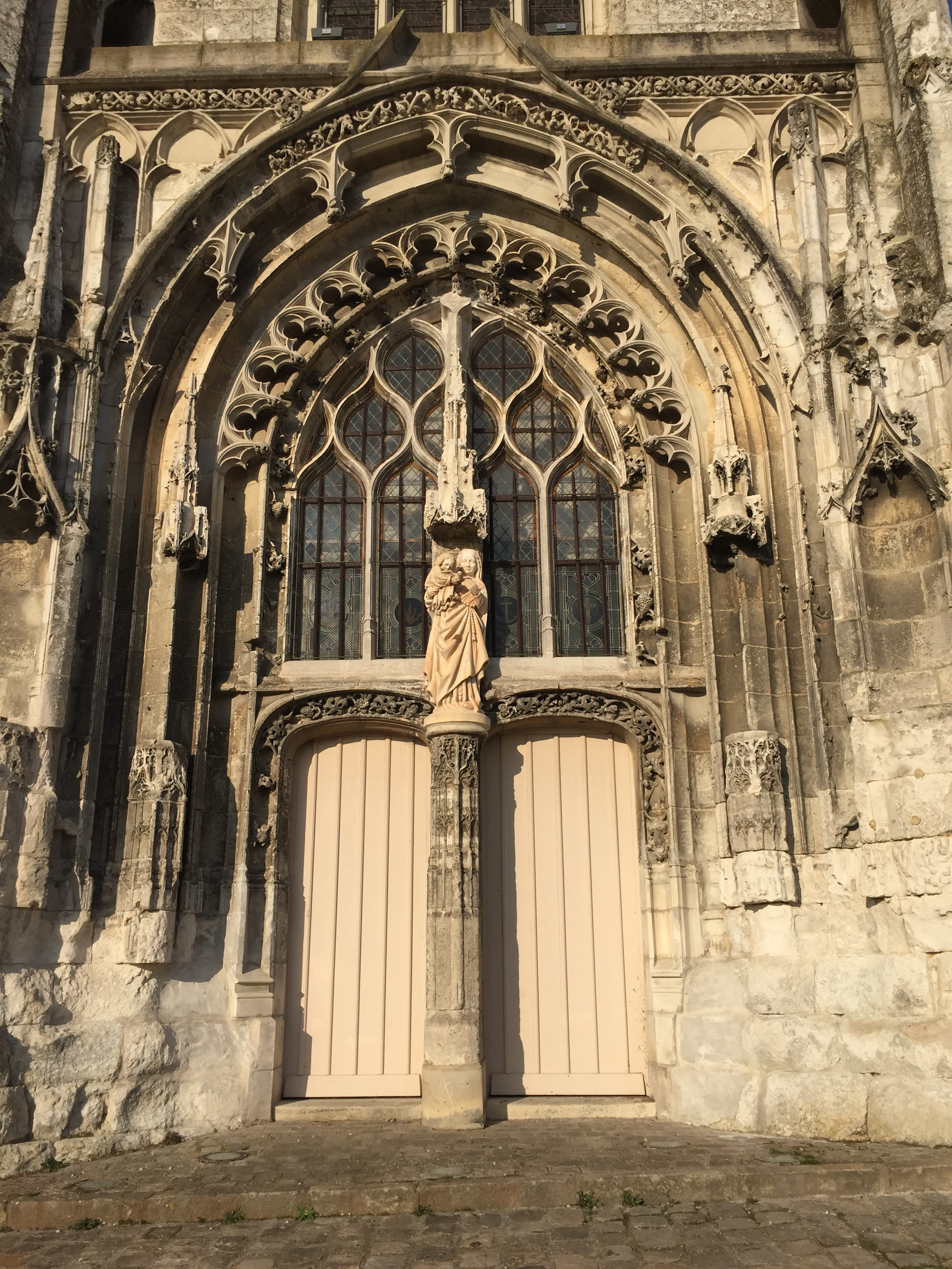 This photograph was taken with an iPhone 6